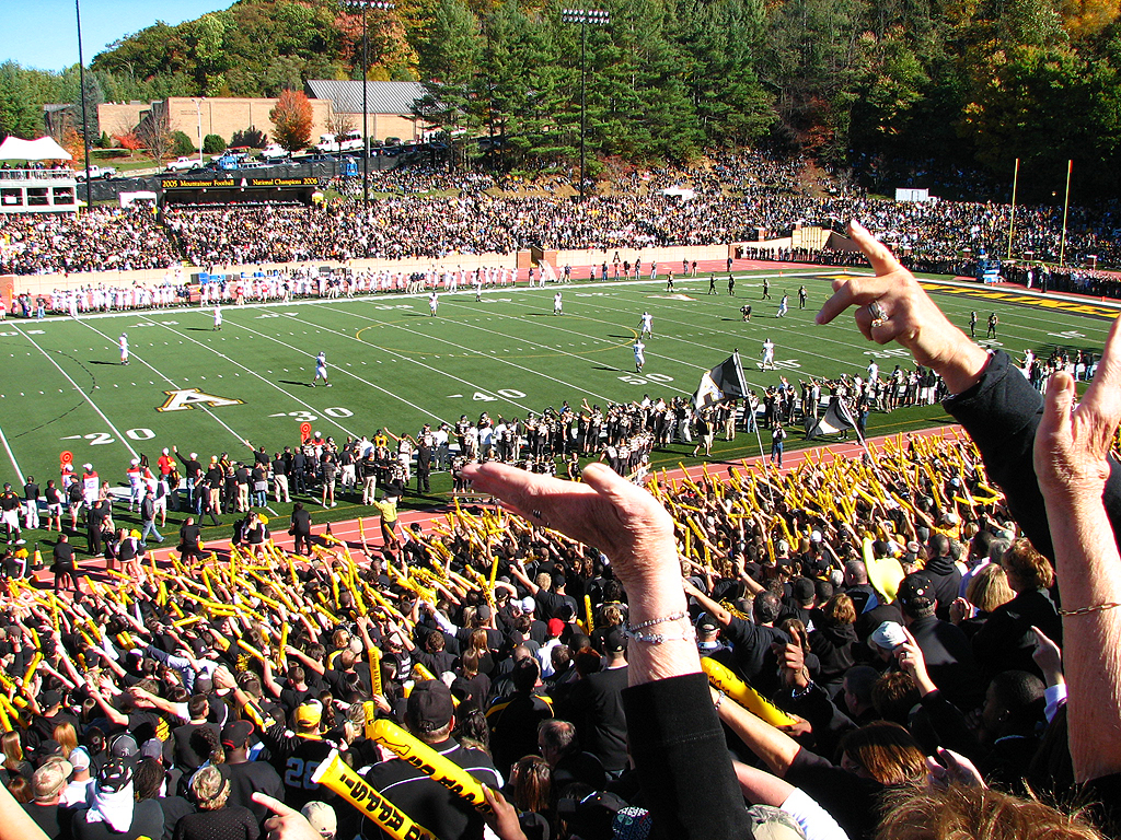 Photo taken 10-20-2007 vs. Georgia Southern.